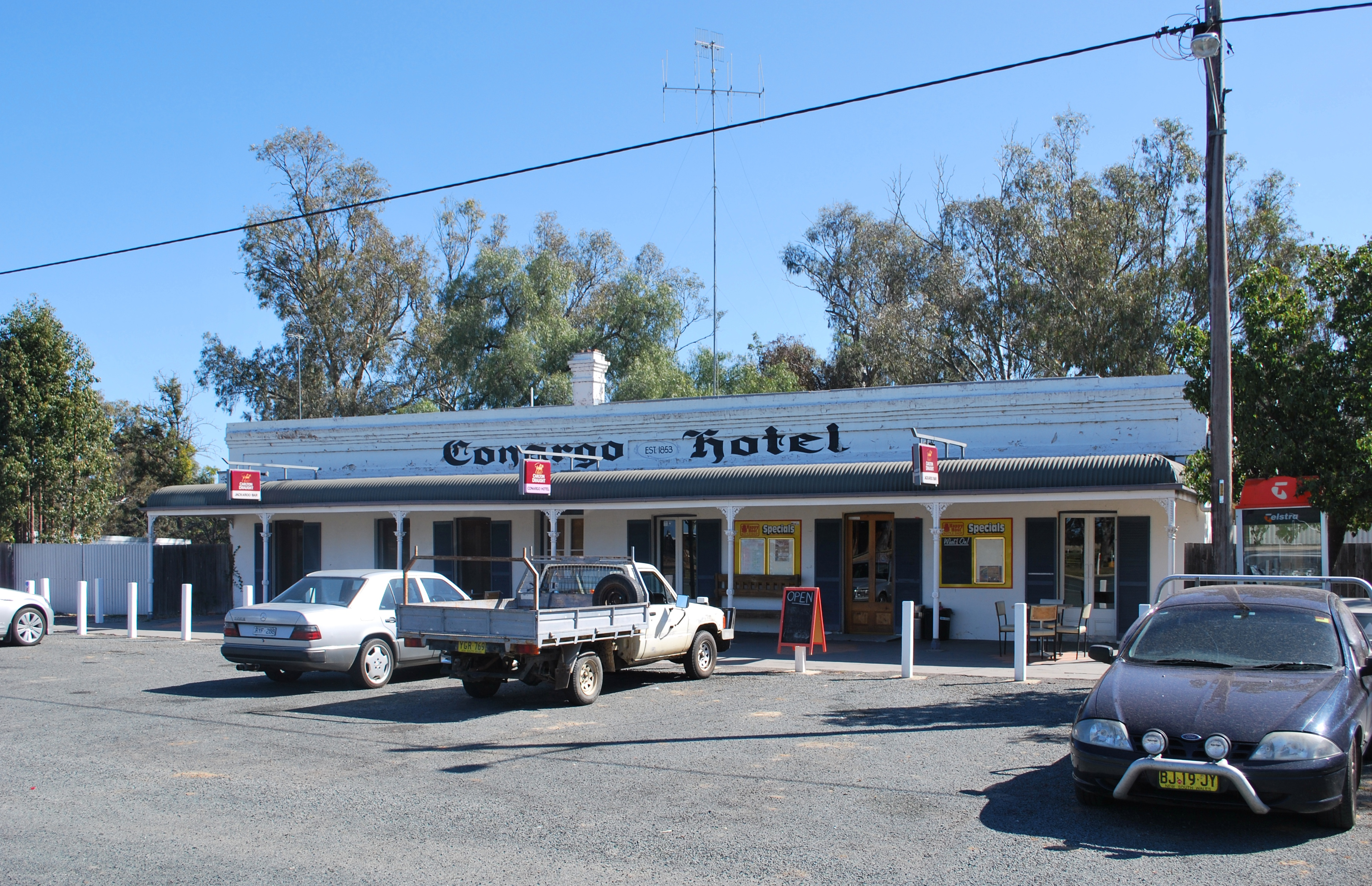 Conargo Hotel at Conargo, New South Wales